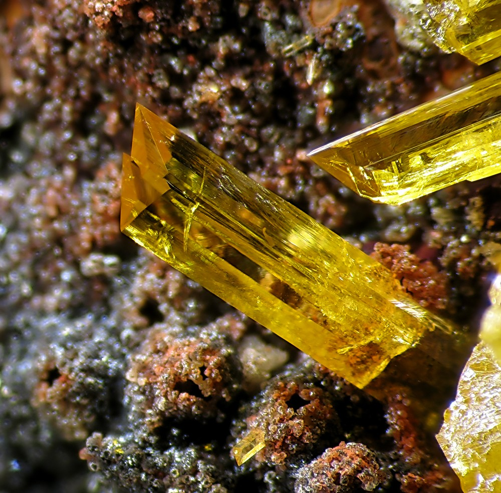 Legrandite Locality: Ojuela Mine, Mapimí, Municipio de Mapimí, Durango, Mexico (Locality at ) Picture width 8 mm. Collection and photograph Christian Rewitzer This Photo was Photo of the Day - 26th Apr 2007